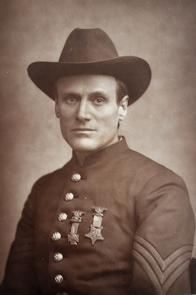 Portrait of Gilbert Bates